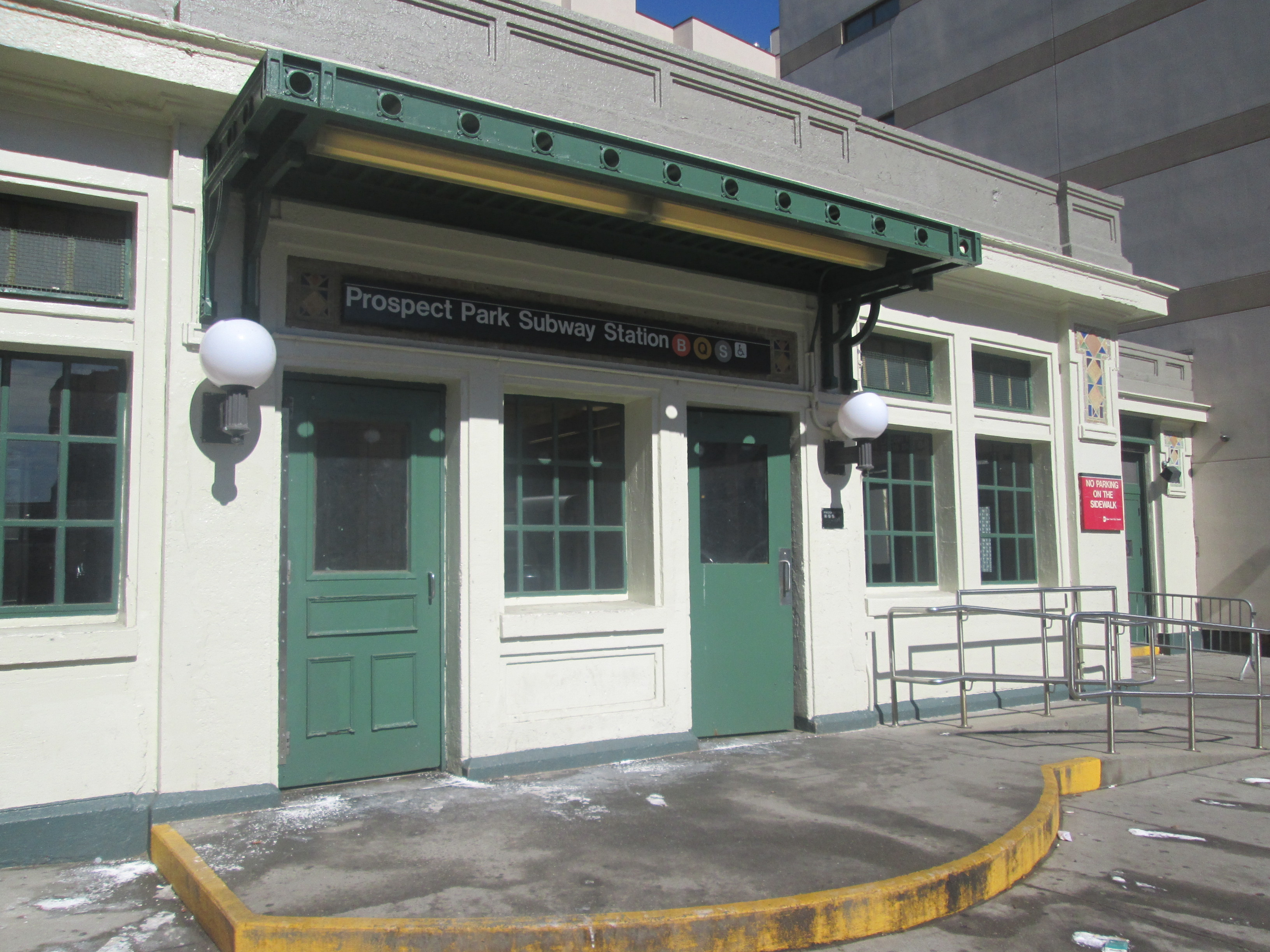 The Prospect Park subway station in Brooklyn, New York